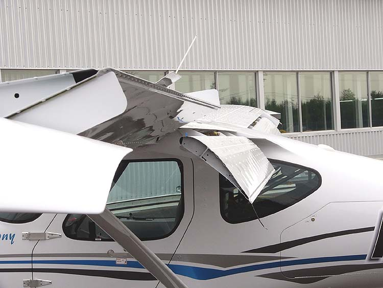 Symphony SA-160 showing 40 degree deflection on its Fowler flaps and its aileron end fences. I took this photo at the Symphony plant in August 2005